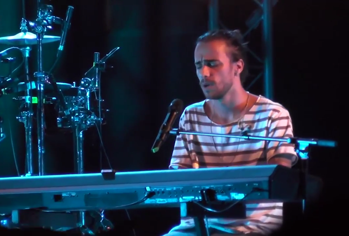 Diogo Piçarra concert in Mirandela, 4 August 2016.